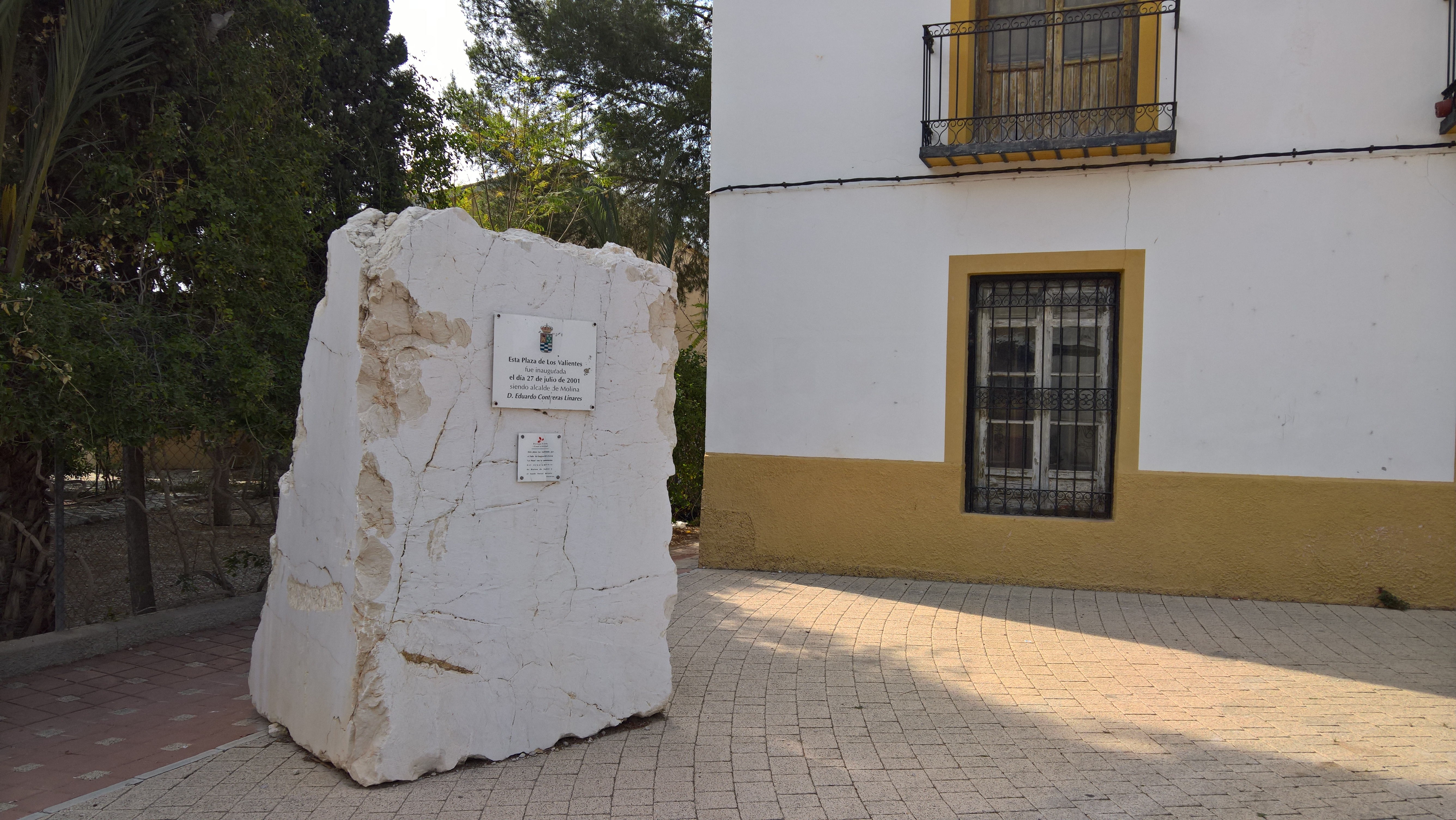 Paisaje de Los Valientes, pedania de Molina de Segura